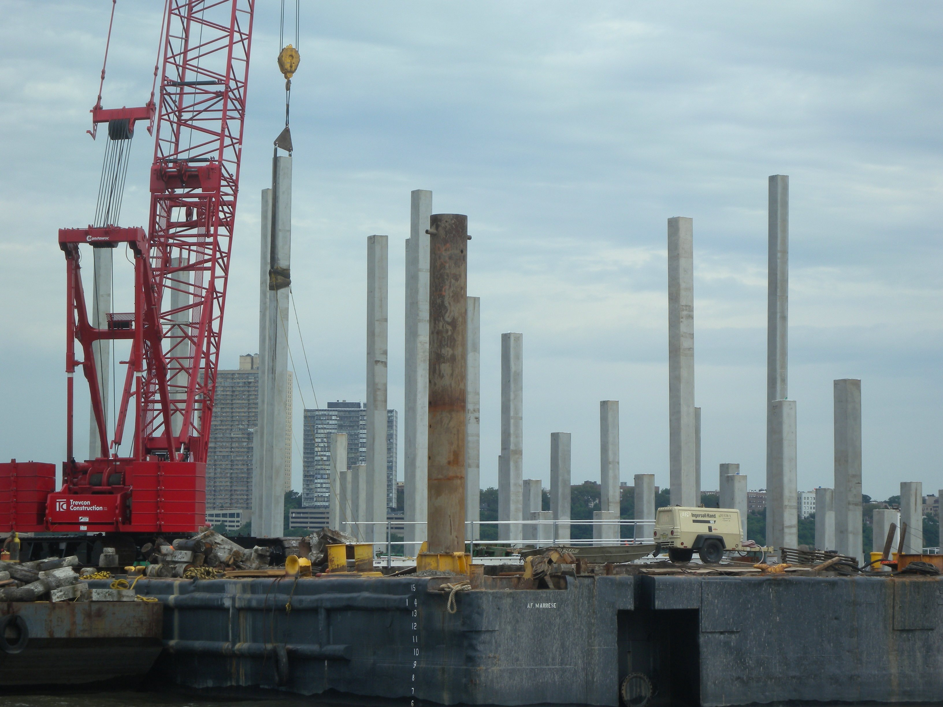 Looking north as new piles are hoisted into place for Pier 97 on a mostly cloudy morning.